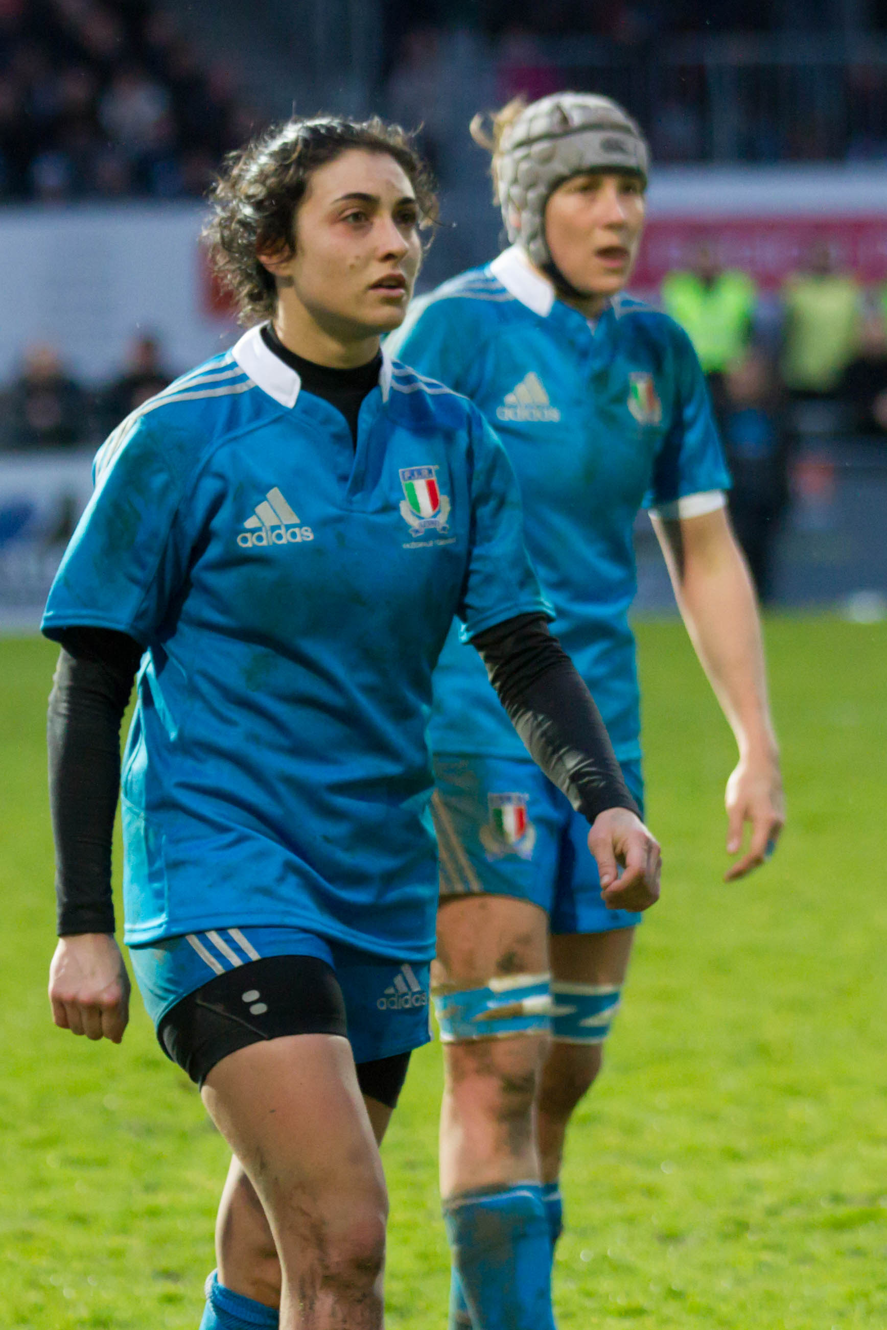 Italian rugby union players Debora Ballarini (left) and Silvia Gaudino (right) during the 2014 Women's Six Nations match vs France in Blagnac